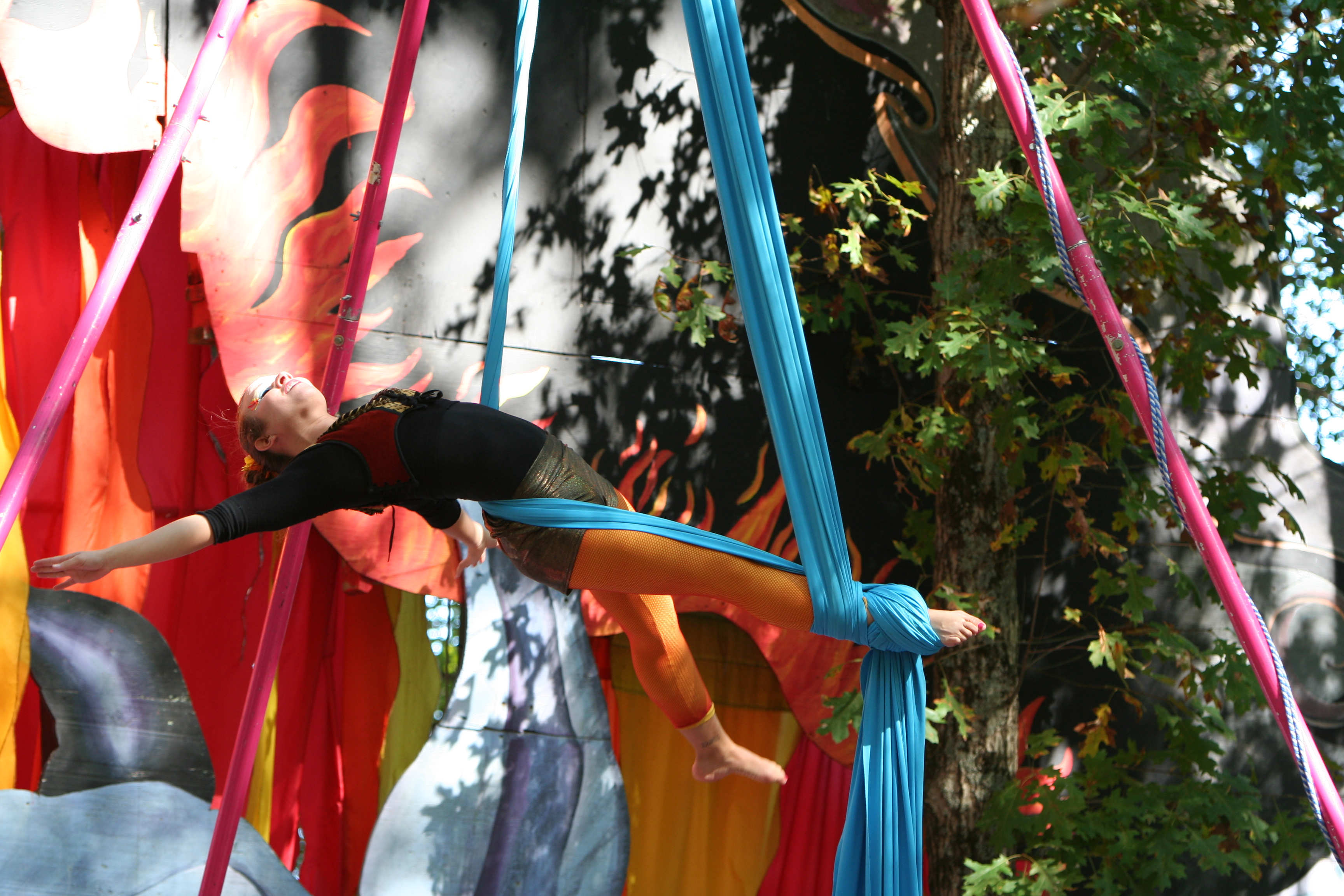 Aerial silk performer at a Renaissance Faire in Massachusetts, USA.